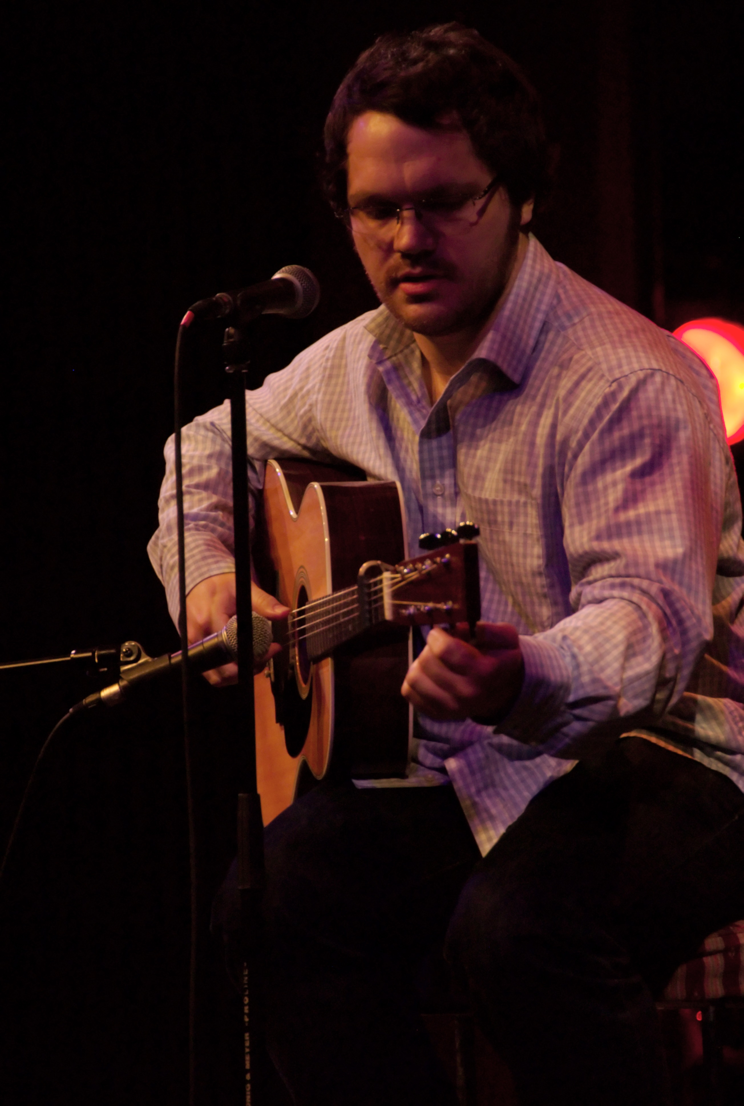 Comedian Matthew Holness performing in character as folk singer Merriman Wier at The Reso-fit: A Comedy Benefit for Resonance 104.4 FM at the Bloomsbury Theatre on 29 March 2007.